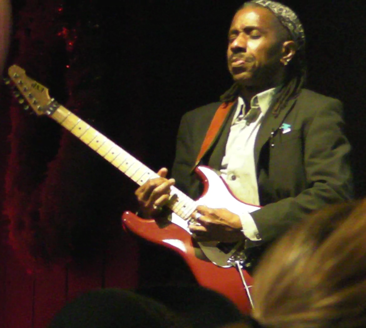 Ronny Drayton playing guitar at the Million Man Mosh